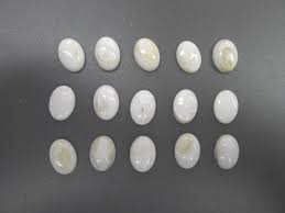 Cabochon Cut Gemstone derived from the Crassostrea Virginica Mollusk